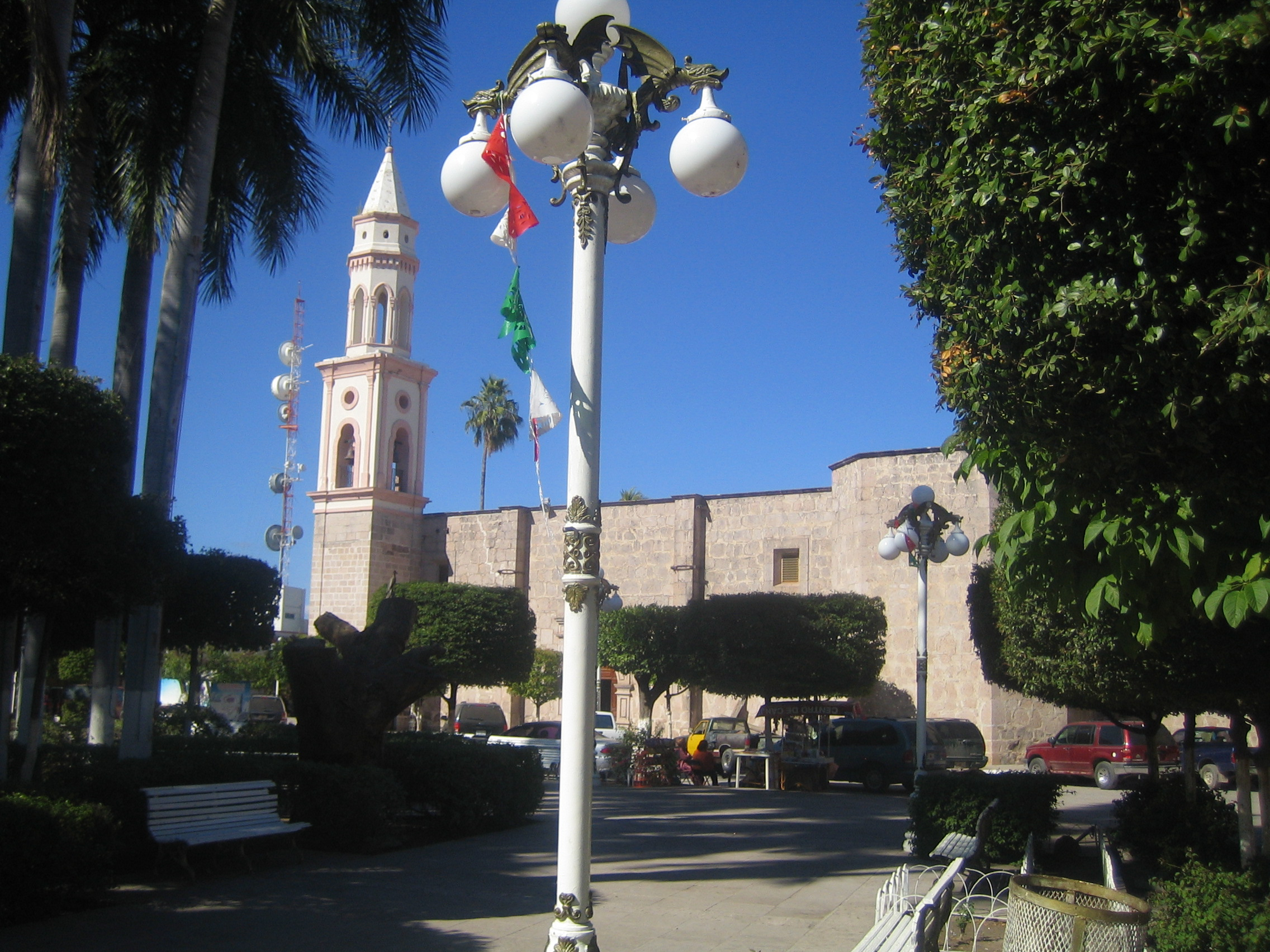 El Fuerte, Sinaloa, church and plaza